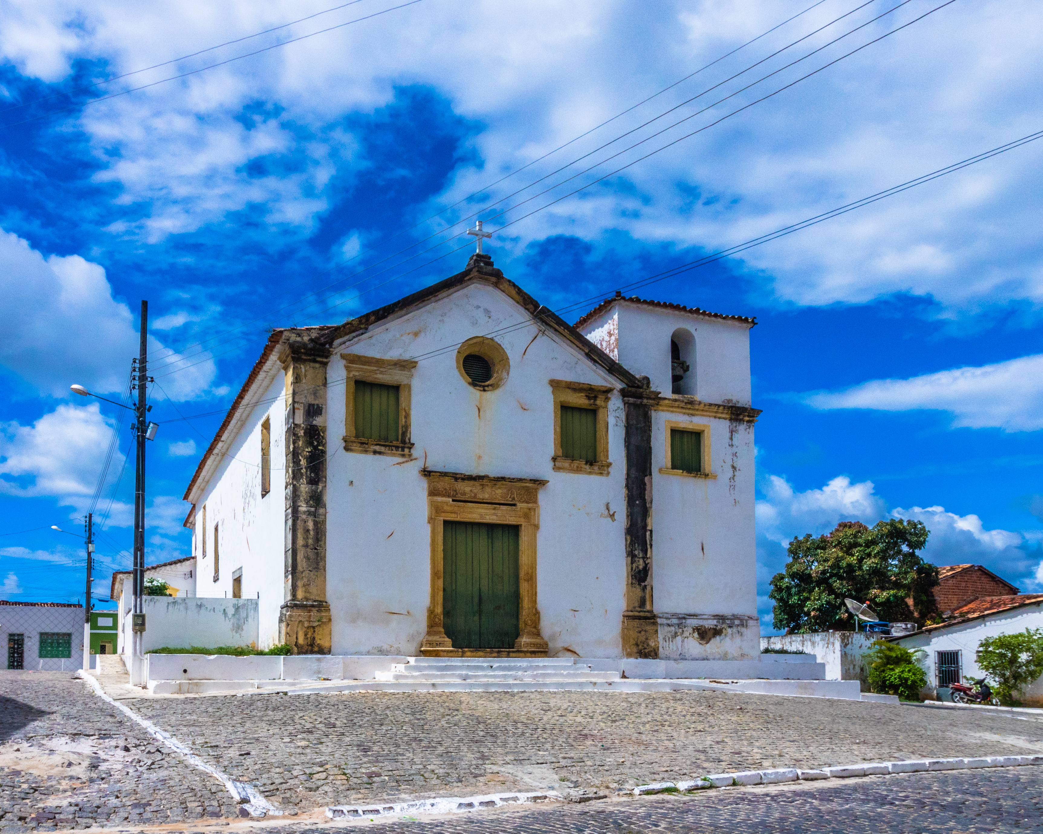 Church of Our Lady of the Rosary of Black Men, São Cristóvão, Sergipe, Brazil.